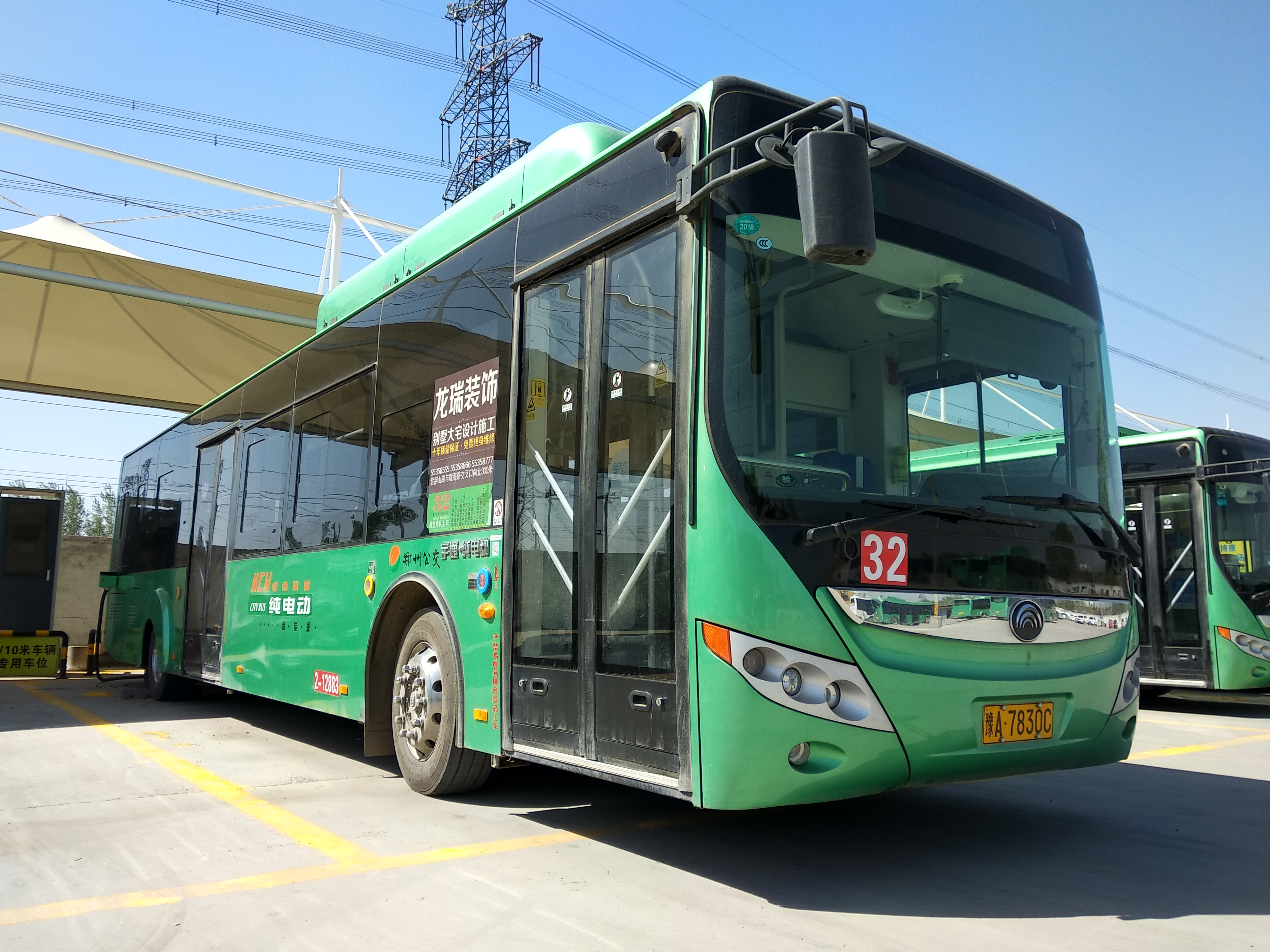 A Yutong E12 running on Route 32.